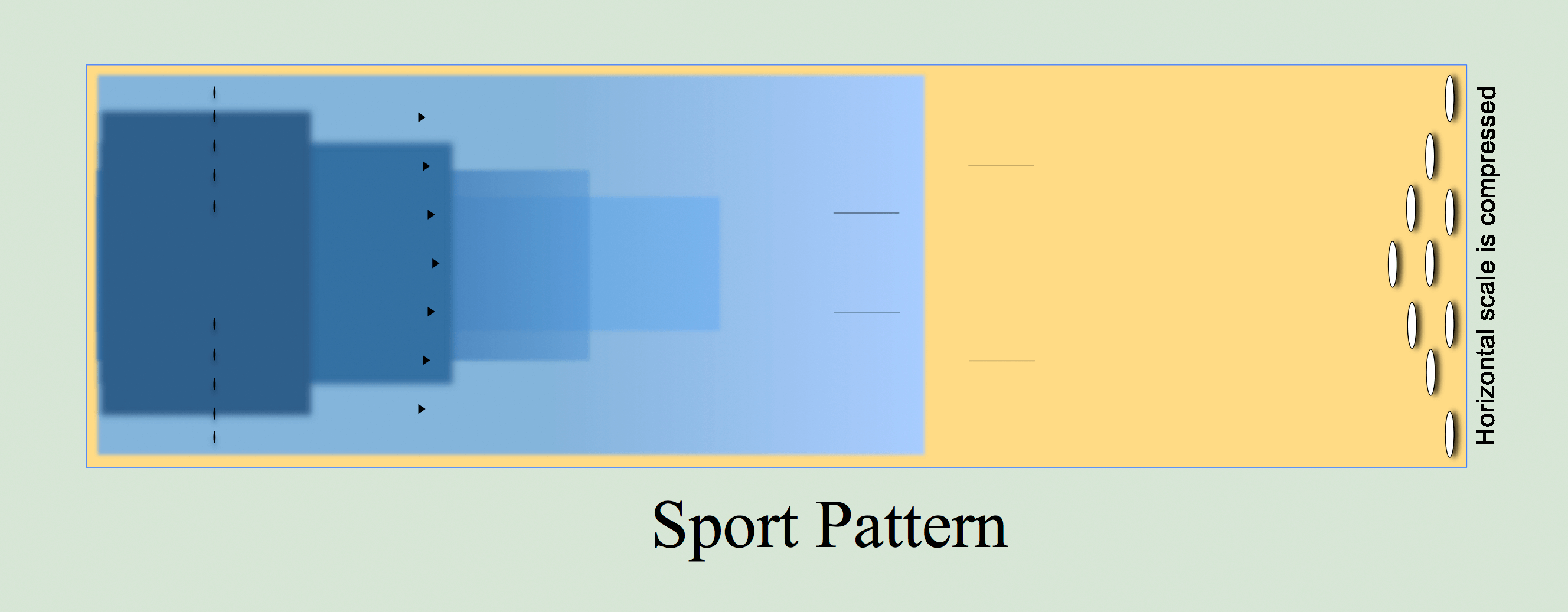 Conceptual diagram showing a Sport Pattern (oil pattern) on a bowling lane, with greater oil concentrations being represented by darker blues. Lane is compressed (not to scale). Cropped from the following image: 20190106 Oil patterns on bowling lanes